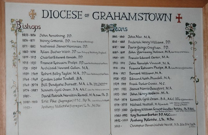 The Cathedral of St. Michael and St. George, Grahamstown, South Africa. Diocese Chart for Grahamstown as of November, 1995